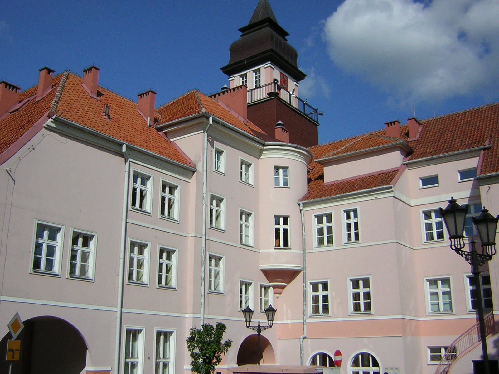 Town Hall of Iława